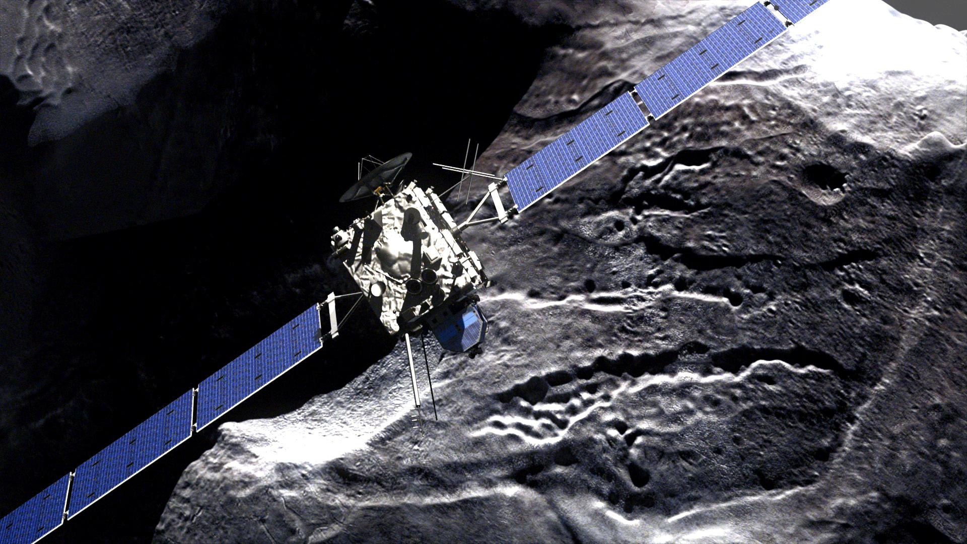 Rosetta fly-by near a comet. Frame from the movie "Chasing A Comet – The Rosetta Mission".